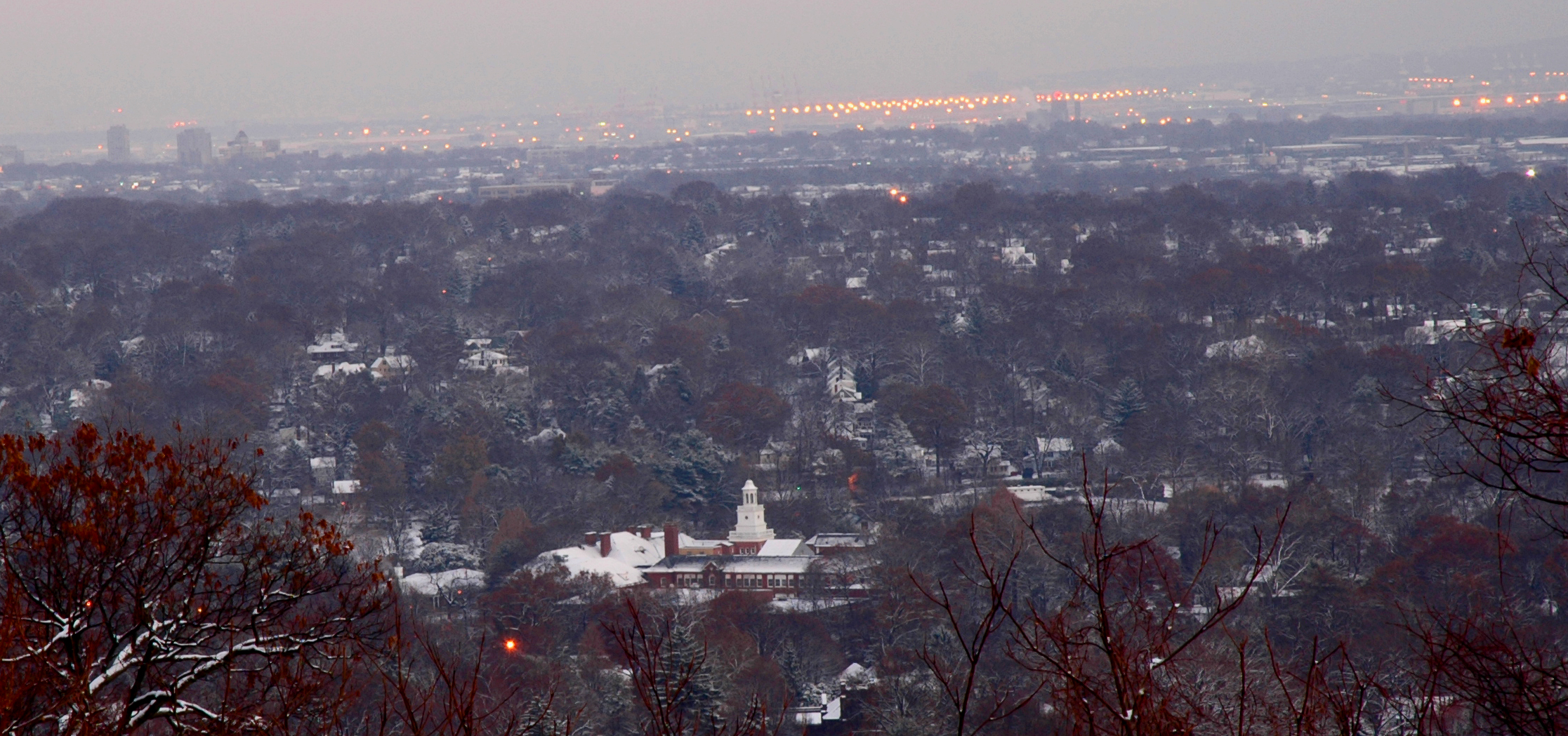 Photography by Leif Knutsen. Maplewood, New Jersey, from South Mountain Reservation. Maplewood Middle School is the prominent building in middle.